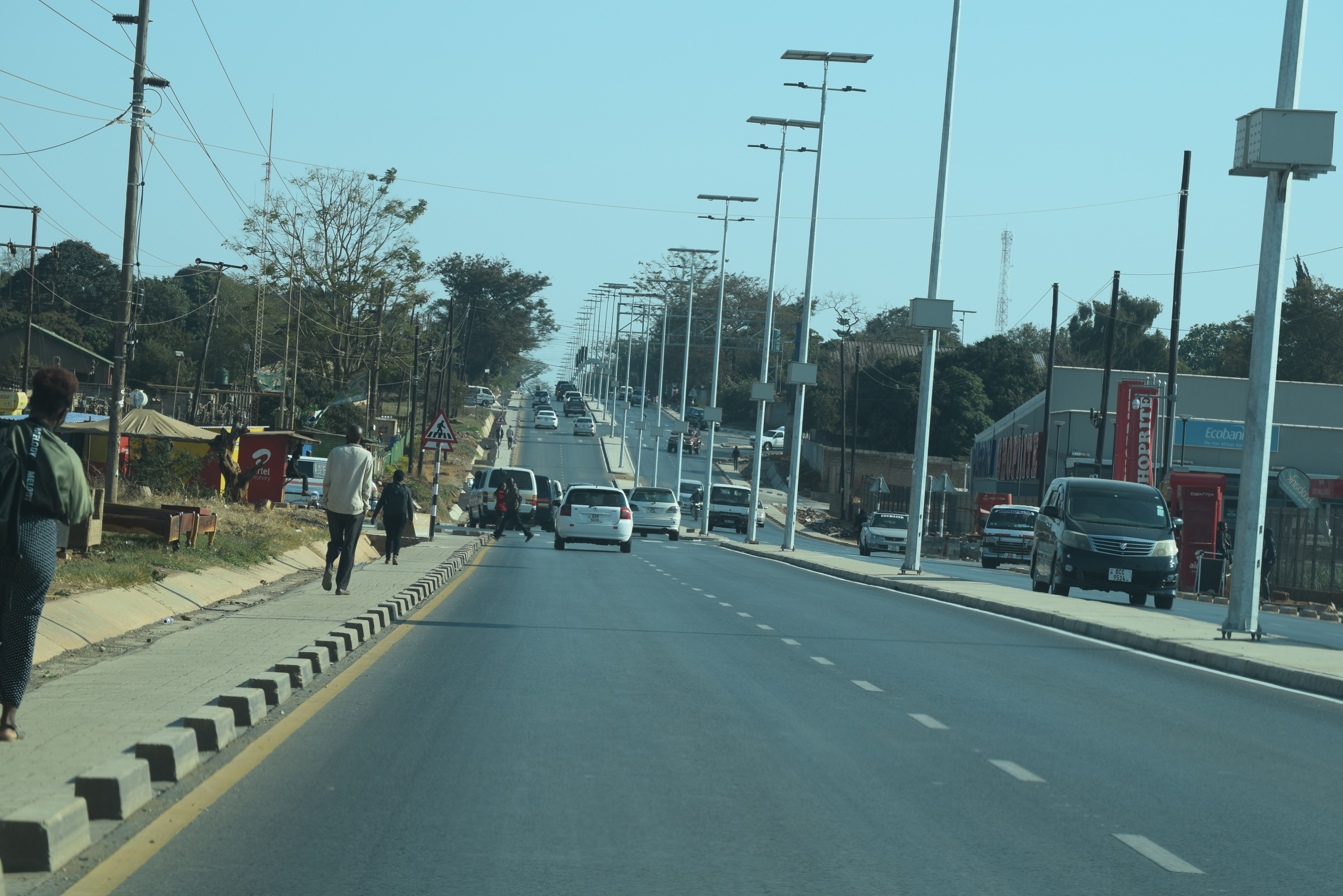 Road in Lusaka Zambia